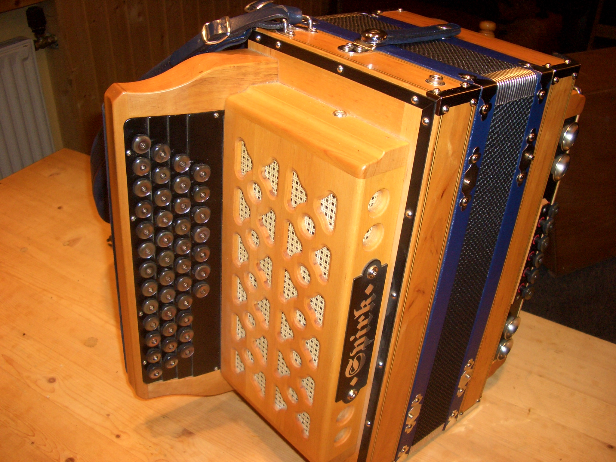 Spirk diatonic Accordion with 3 and 1/2 rows, second few